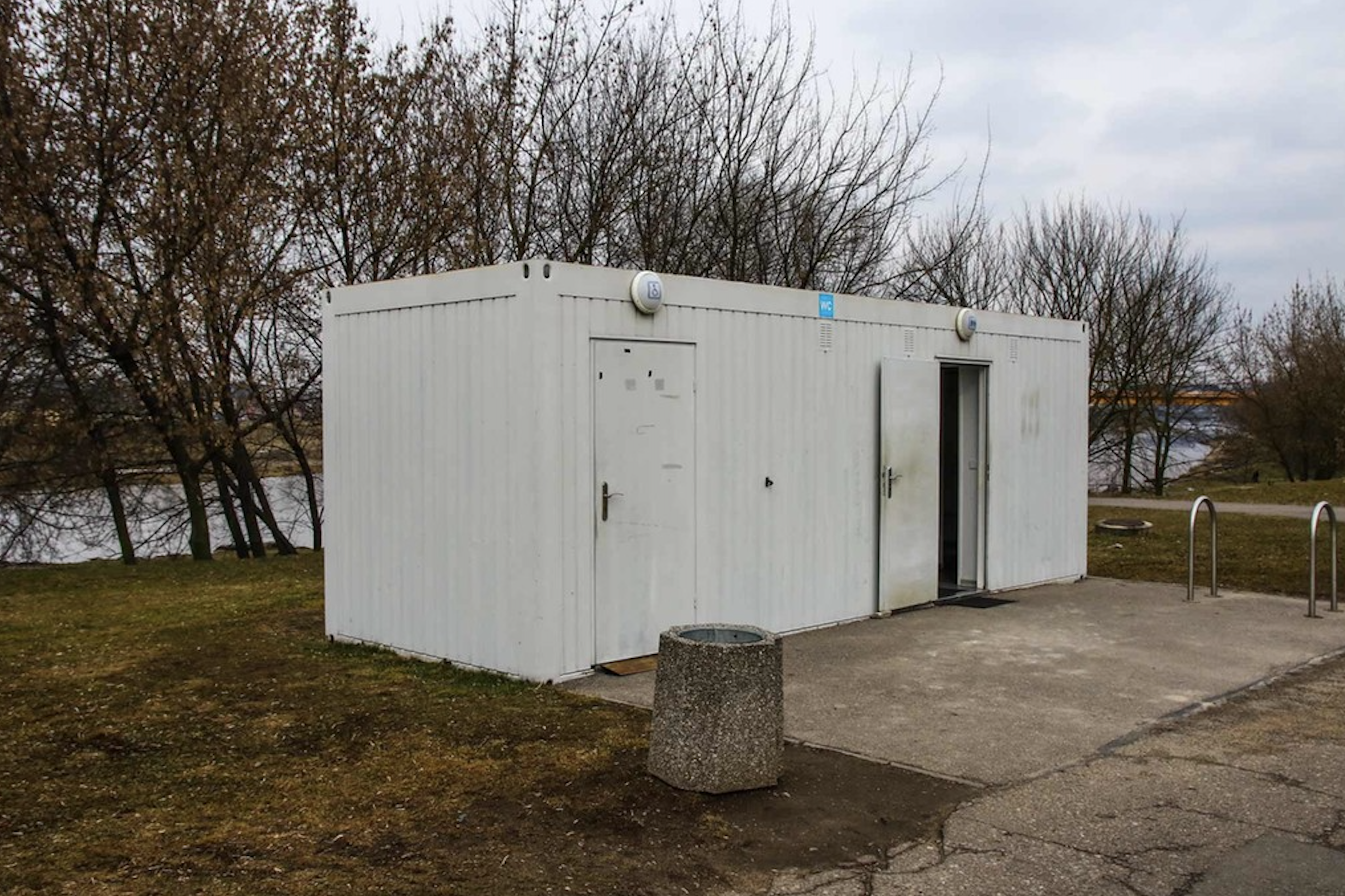 "Golden toilet" in Kaunas, Lithuania